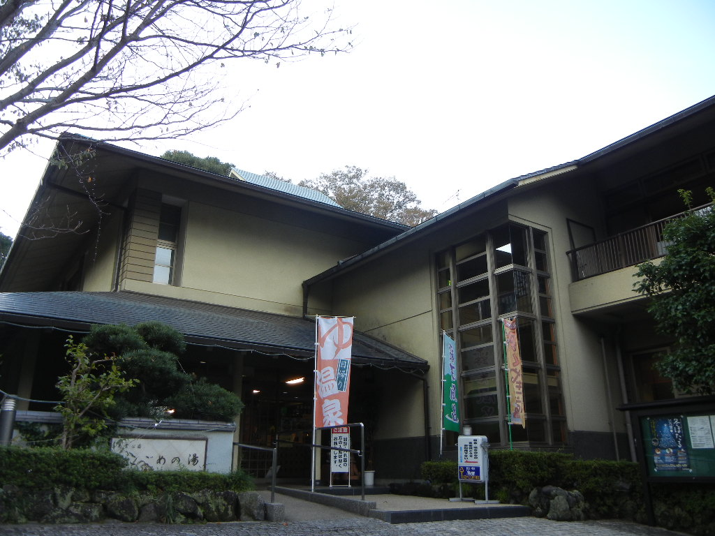 Kogome-no-yu_Yugawara. 神奈川県の湯河原町にある日帰り温泉施設「こごめの湯」, Yugawara.